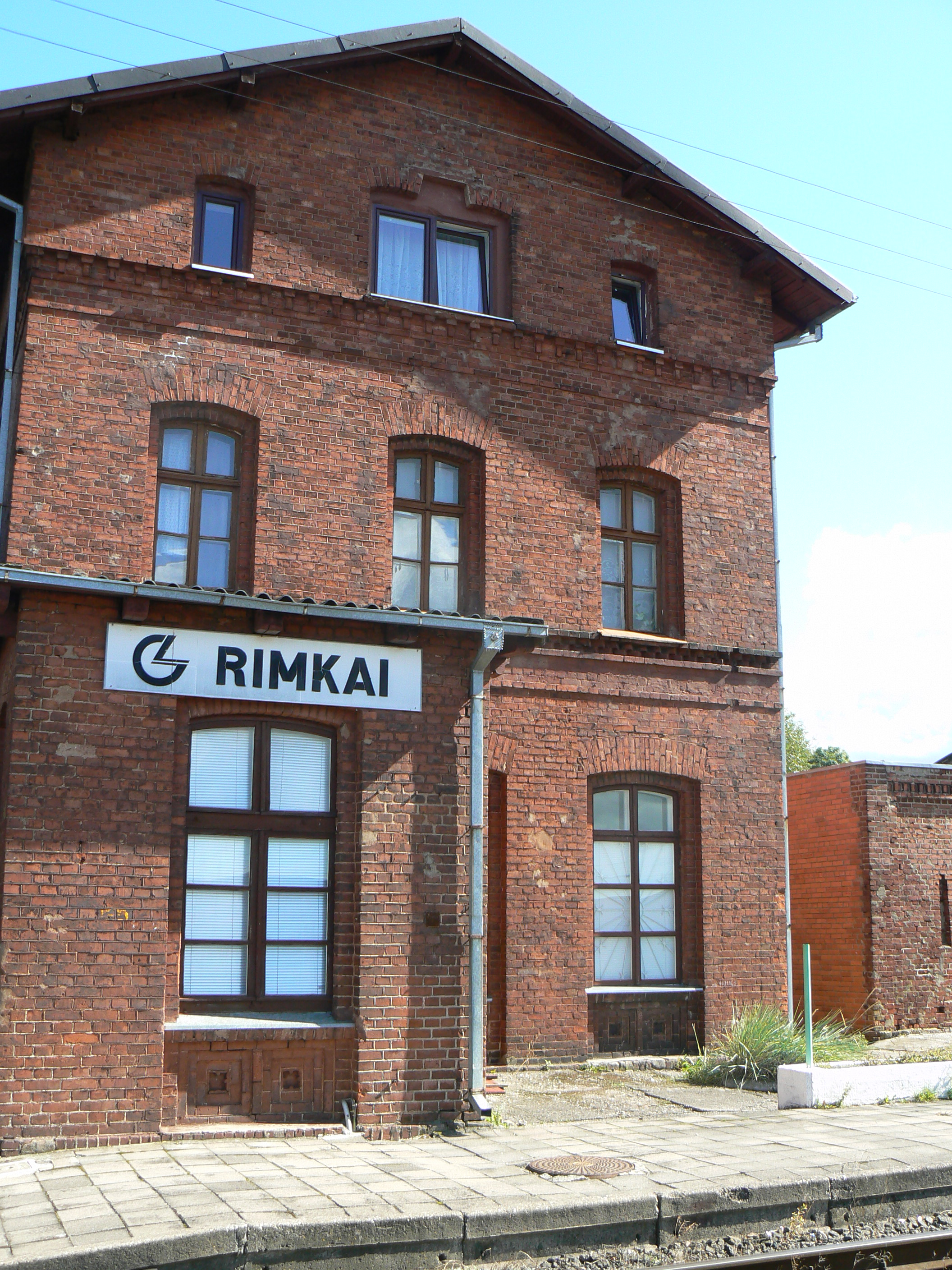 Railway station Rimkai near Klaipėda